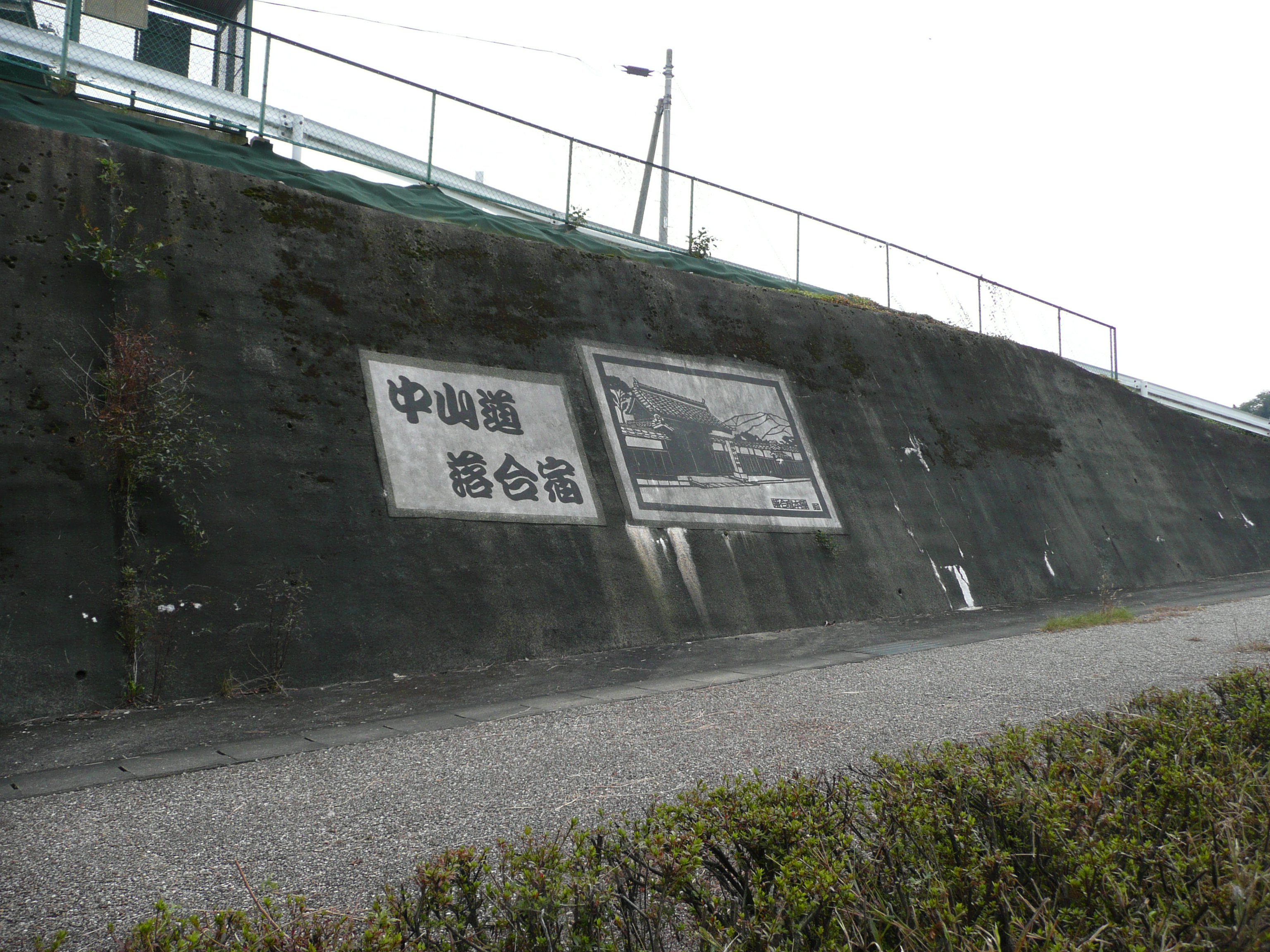 落合宿の跡地